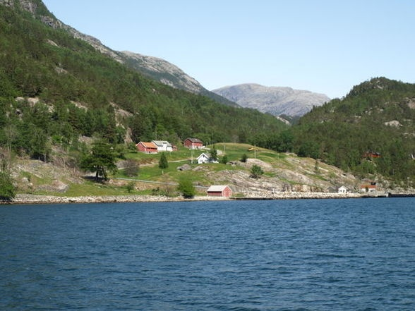 Songesand in Rogaland, Norway